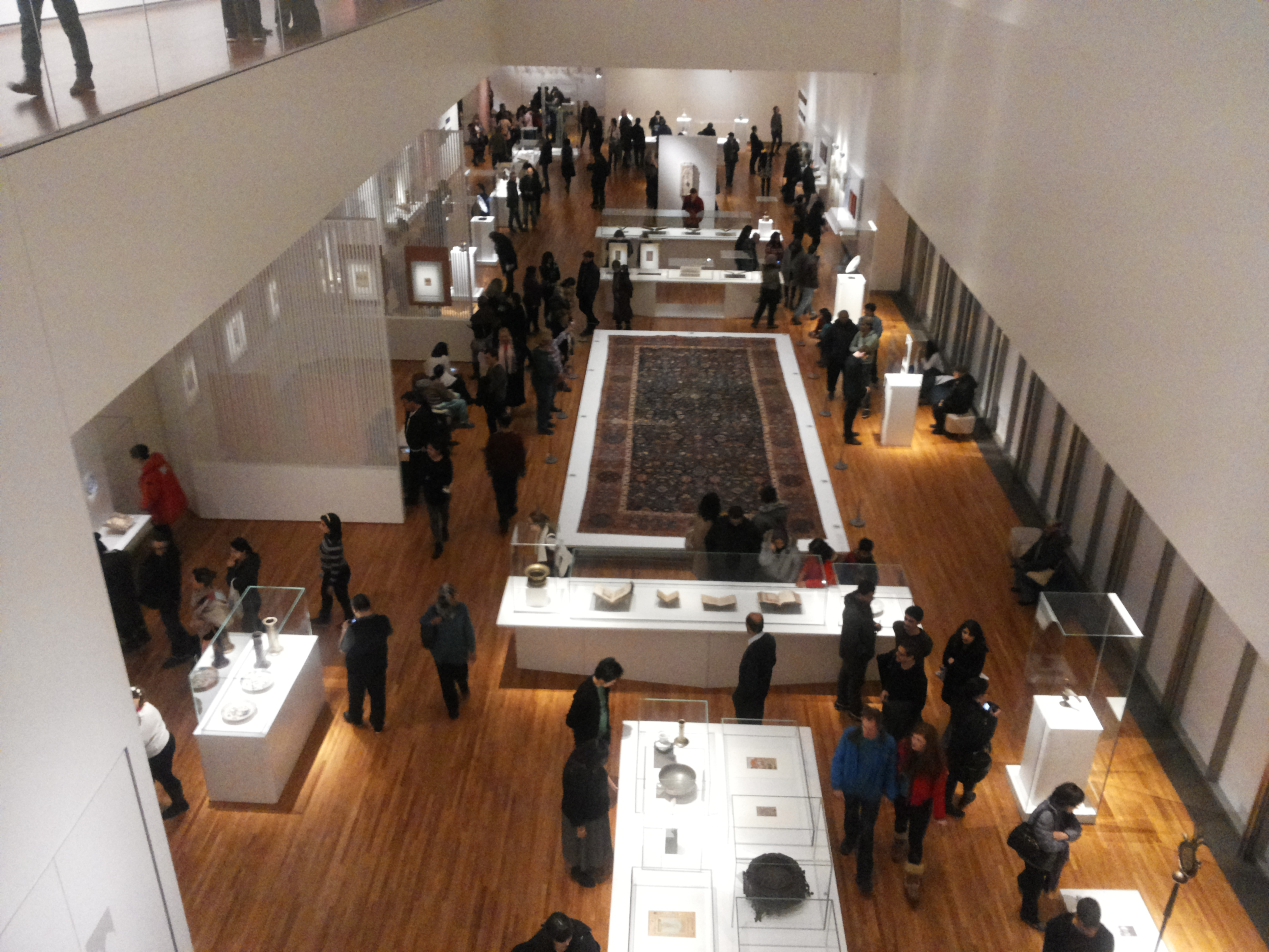 a photo from inside of Aga Khan museum